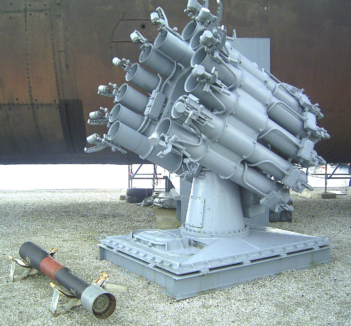 Soviet BRU-6000 depth-charge launcher with RGB-60 depth-charge. Range 300 - 5500 m effective against submarines and acoustic Torpedoes. Total weight of the charge 113,5 kg (pay-load 23,6 kg)